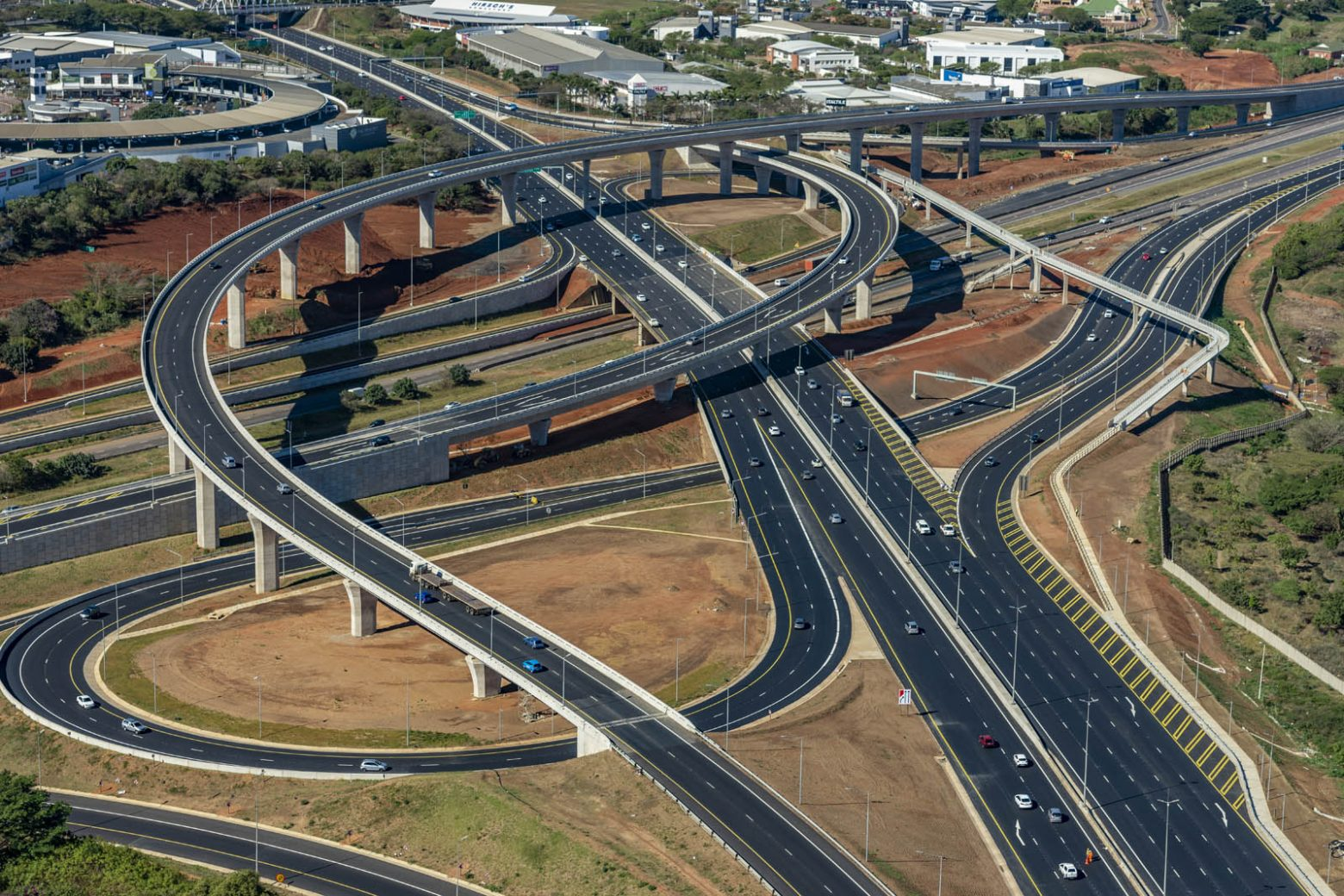 mt edgecombe